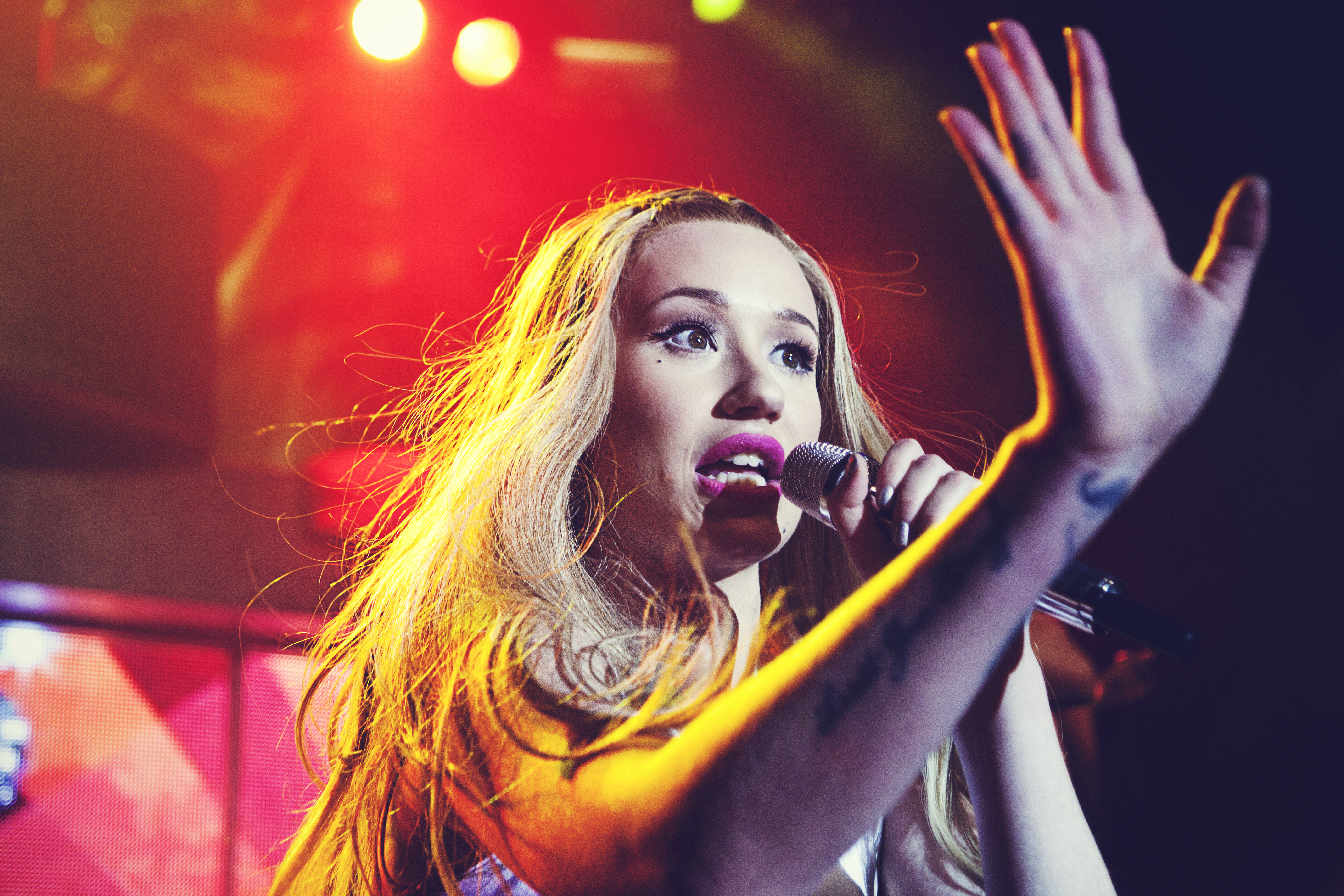 Iggy Azalea singing live at Irving Plaza NYC